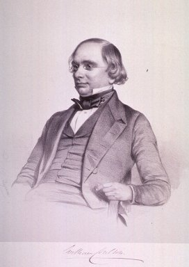 Portrait of William Coulson (1802 – 1877), English surgeon.